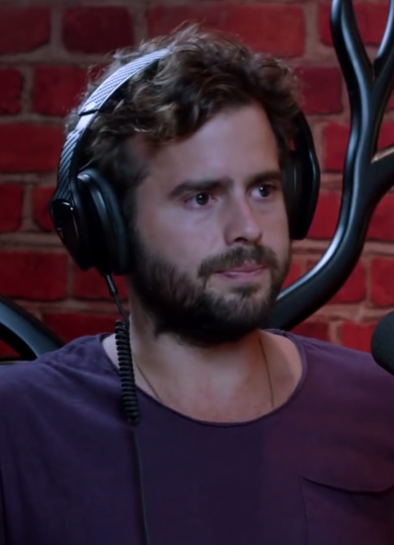 João Manzarra (1985-present), Portuguese actor and television host.